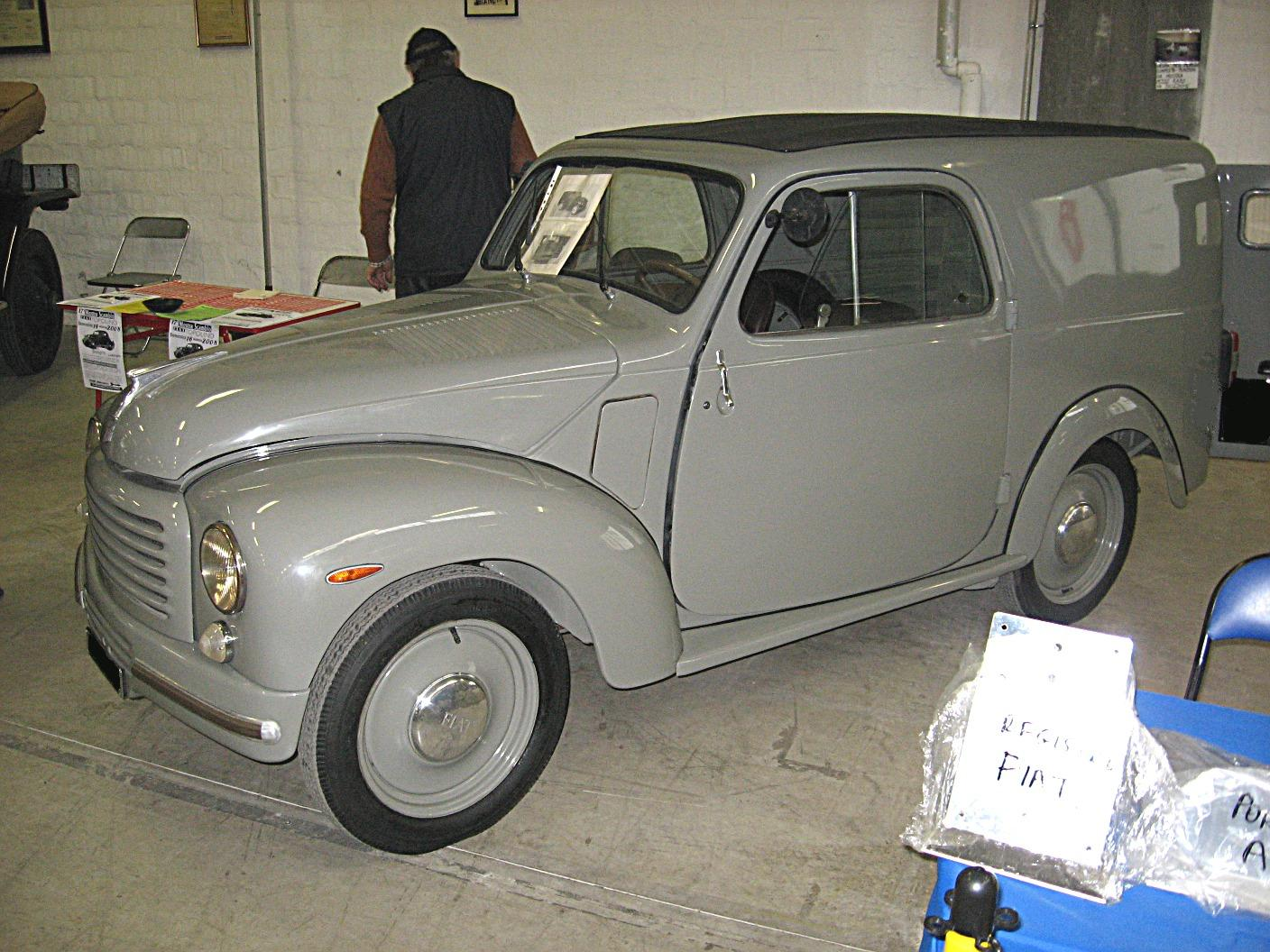 Subject:Fiat 500 C "Topolino" Furgone (1948) Author:Luc106 Date:November 24th, 2007 Event:Markè-Retrò 2007 Place/country:Cesena (FC), Italy I release all rights in the public domain.